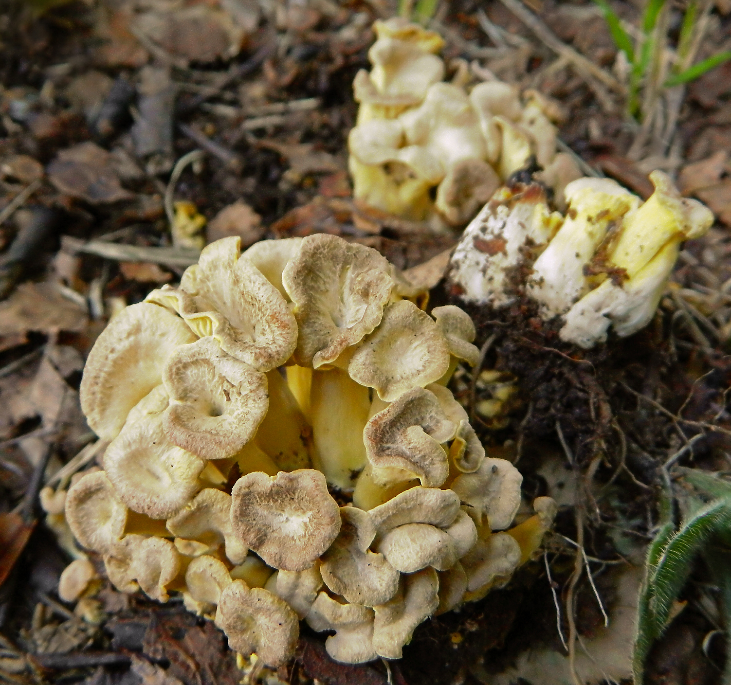 Cantharellus ianthinoxanthus (Maire) Kühner 1947 Image location: Parco Bolasco, Castelfranco, Italy This mushroom was found on a foray that Italian mycologist, Silvano Pizzardo organized with Ennio Giusti and Albert Casiero. Local area mycologist, Anna Maria Marini, identified this mushroom as This mushroom was found on a foray that Italian mycologist, Silvano Pizzardo organized with Ennio Giusti and Albert Casiero. Local area mycologist, Anna Maria Marini, identified this mushroom as Cantharellus ianthinoxanthus in the field and after the foray the ID was confirmed by Sivano Pizzardo, “Coordinator pro tempore” of the Federation Veneti (Mycology) Groups. Recognized by sight For more information about this, see the observation page at Mushroom Observer.